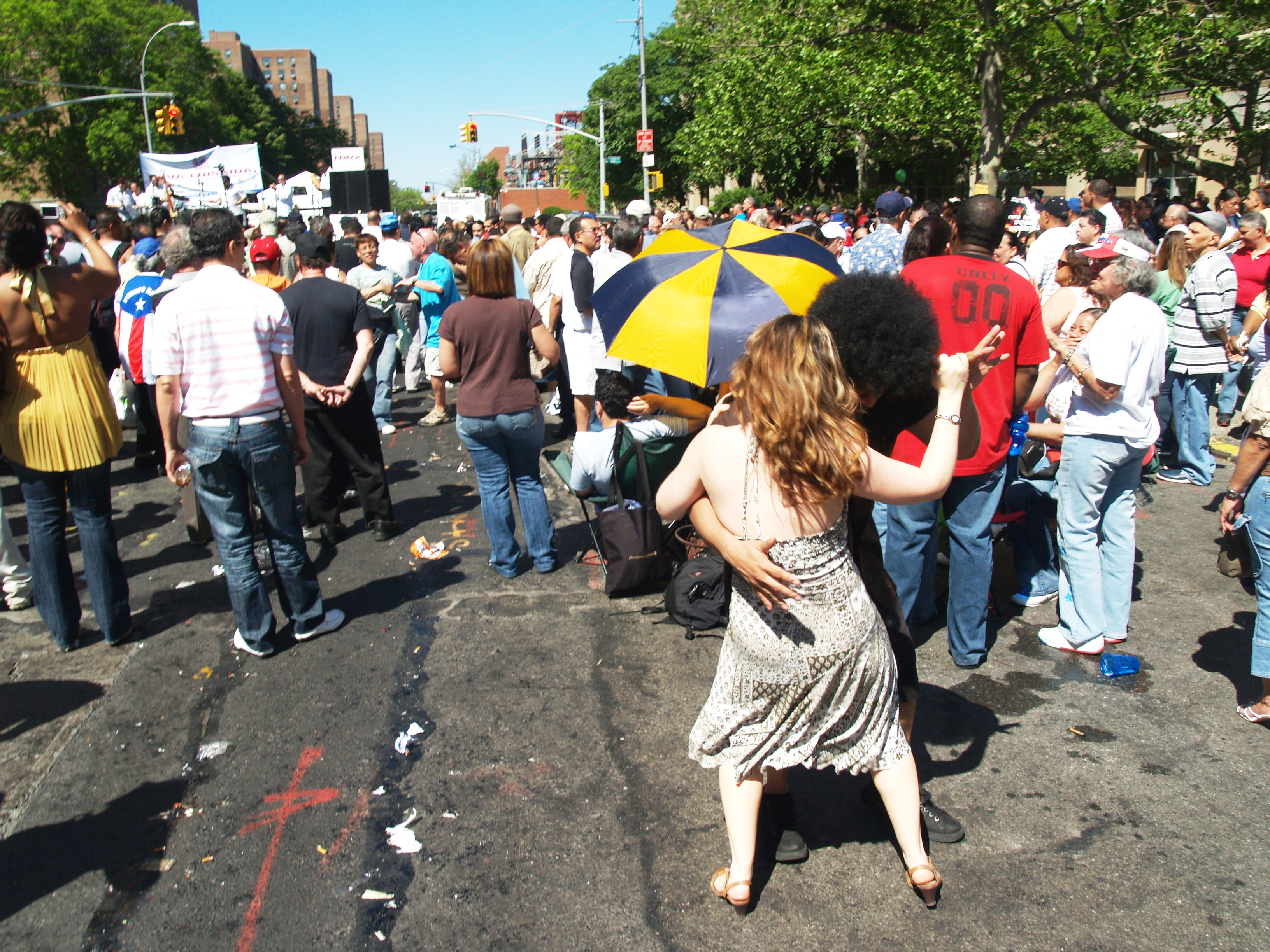 Avenue C street fair with dancing in the East Village of New York City.